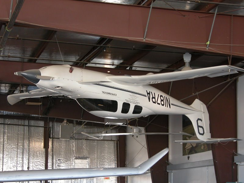 Scaled Composites Model 81 Catbird stored inverted at Scaled's main Mojave hangar.